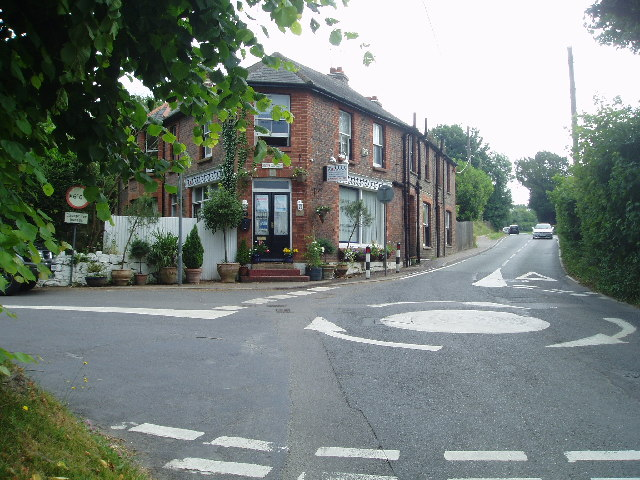 Roundabout in Balcombe.